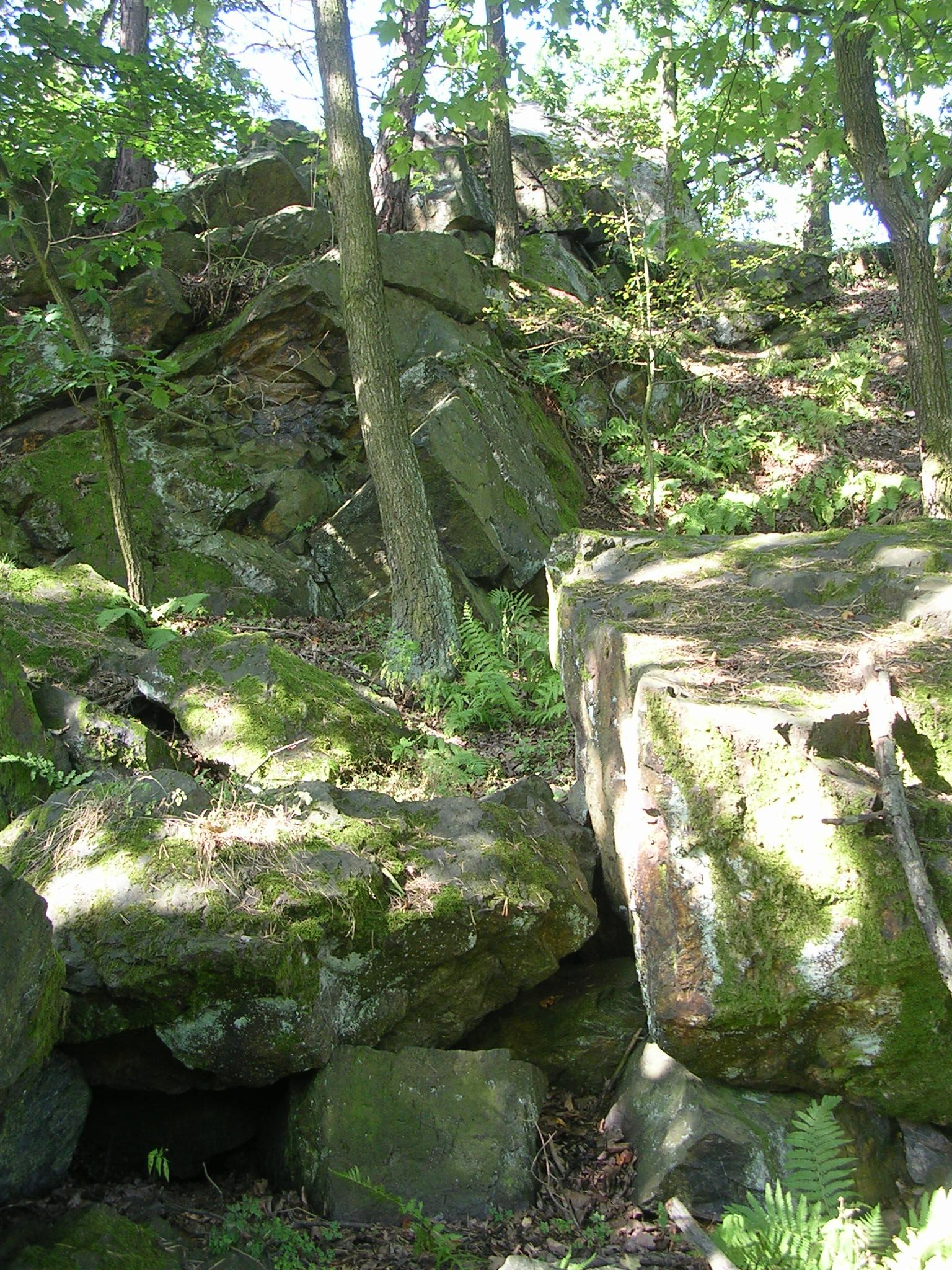 Kublov, Beroun District, Central Bohemian Region, the Czech Republic. "Zdice Little Rock" near Kublov. - Google Maps - Google Earth